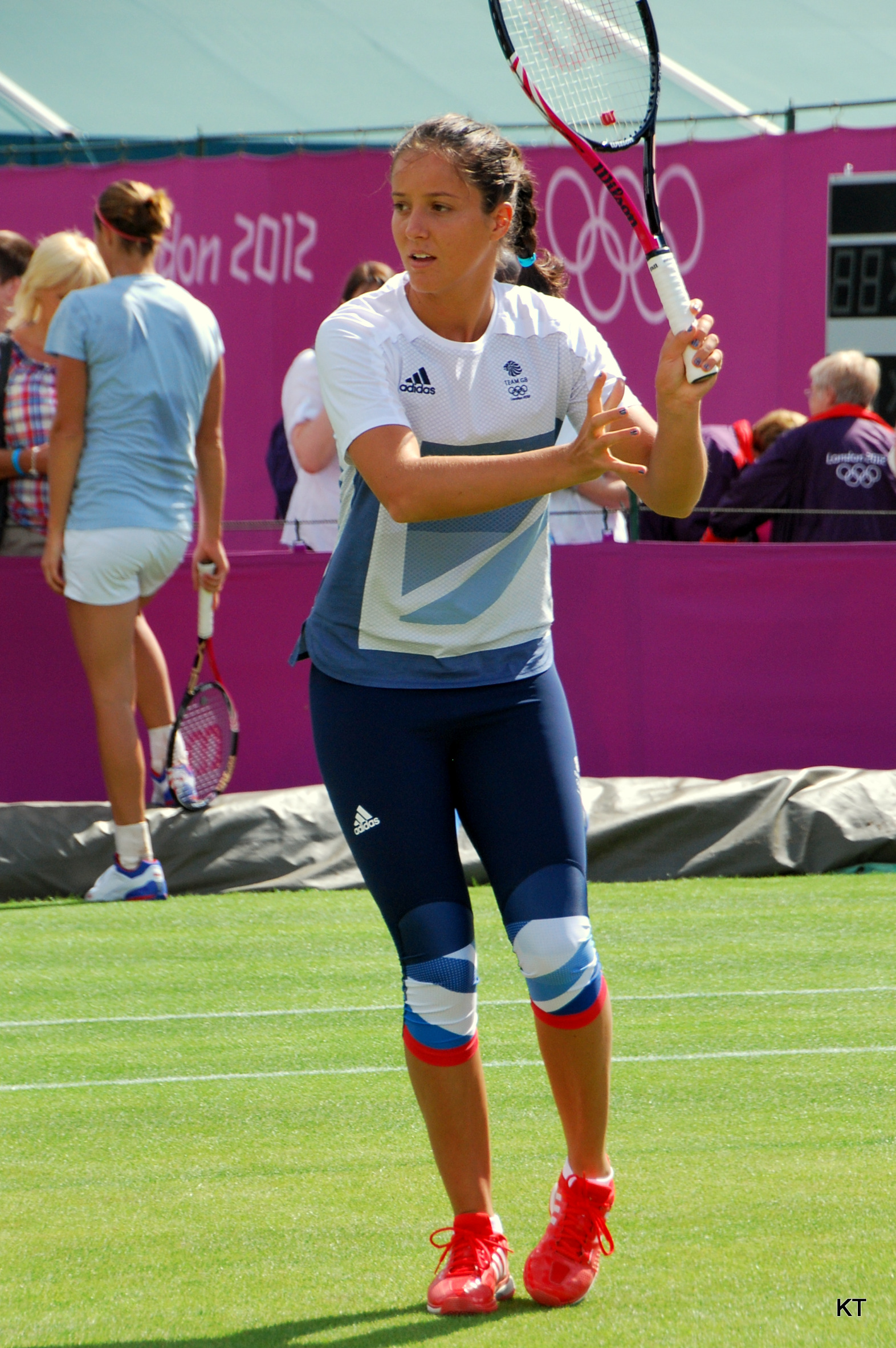 On the practice court